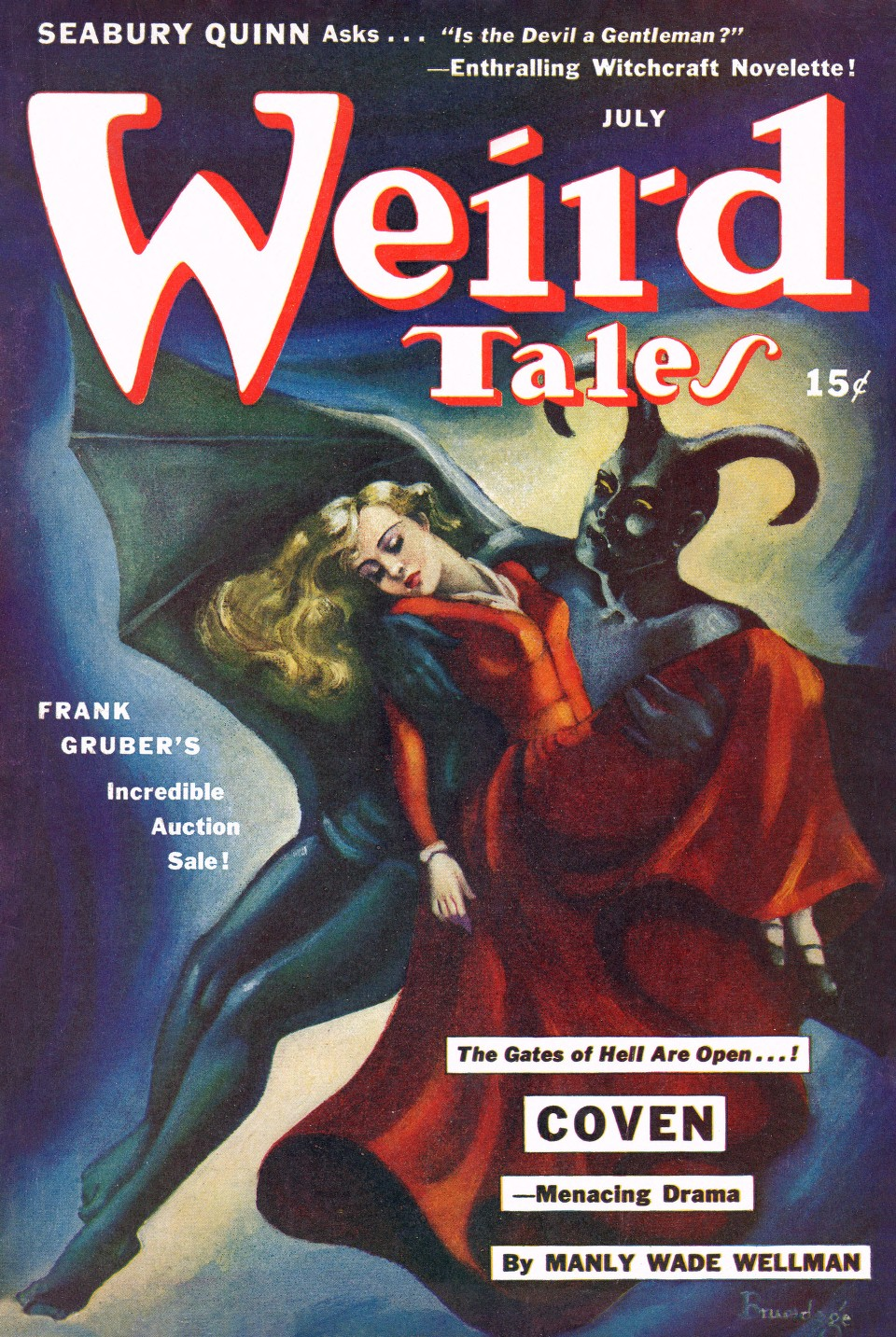 Cover of the pulp magazine Weird Tales (July 1942, vol. 36, no. 6 ) featuring Coven by Manly Wade Wellman. Cover art by Margaret Brundage.